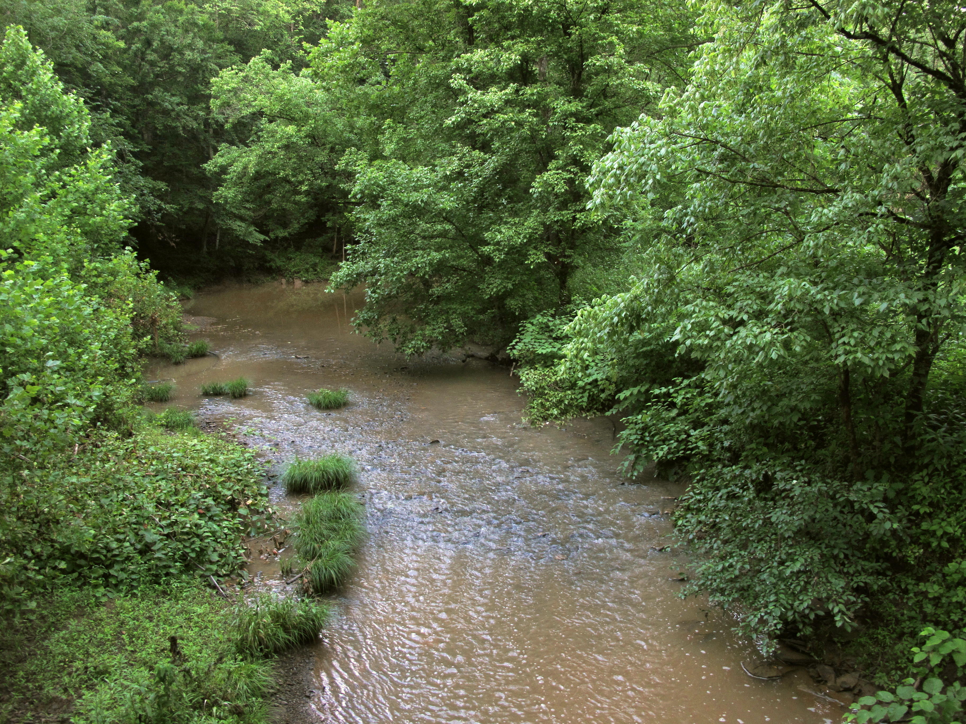 Arnold Creek as viewed from Arnold Creek Road (County Road 11) north of Central Station in Doddridge County, West Virginia